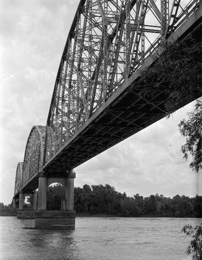 Library of Congress "Krotz Springs Bridge, Spanning Atchafalaya River, Krotz Springs, St. Landry Parish, LA" Alternate Titles: U.S. Route 190 Bridge Atchafalaya River Bridge